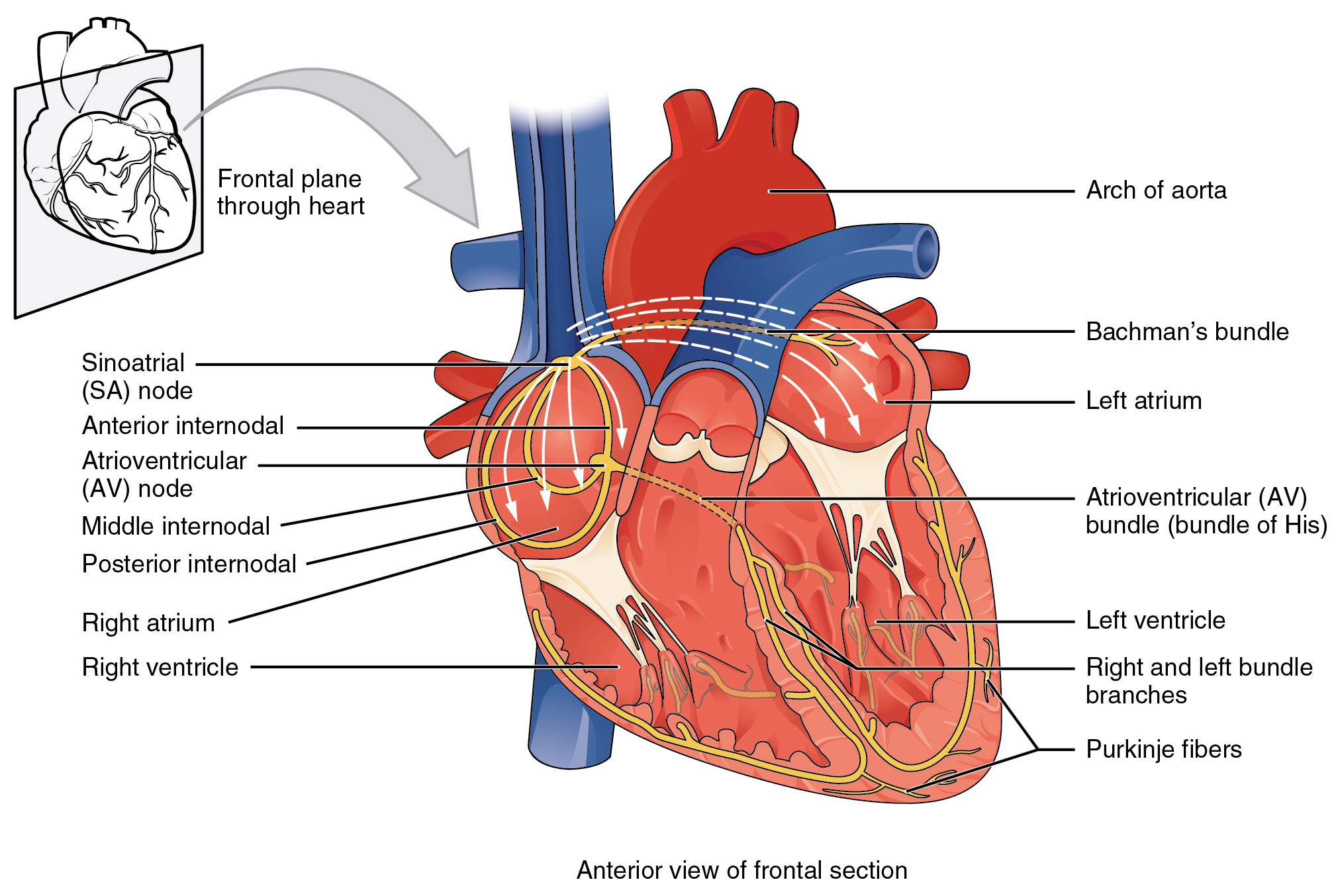 Illustration from Anatomy & Physiology, Connexions Web site. Jun 19, 2013.